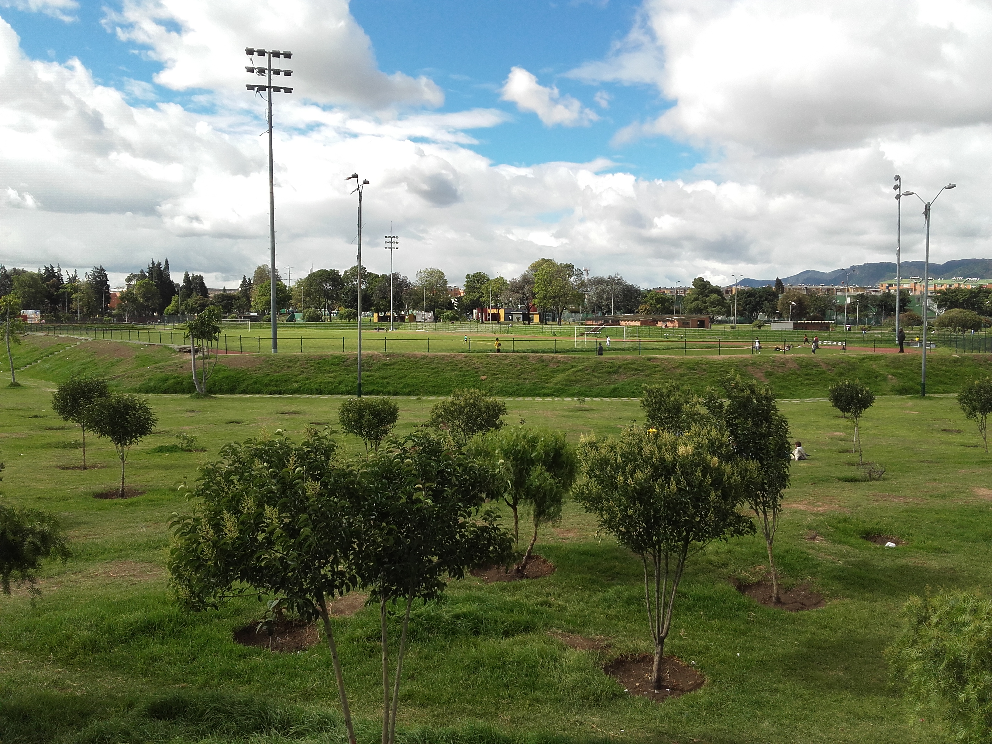 canchasss